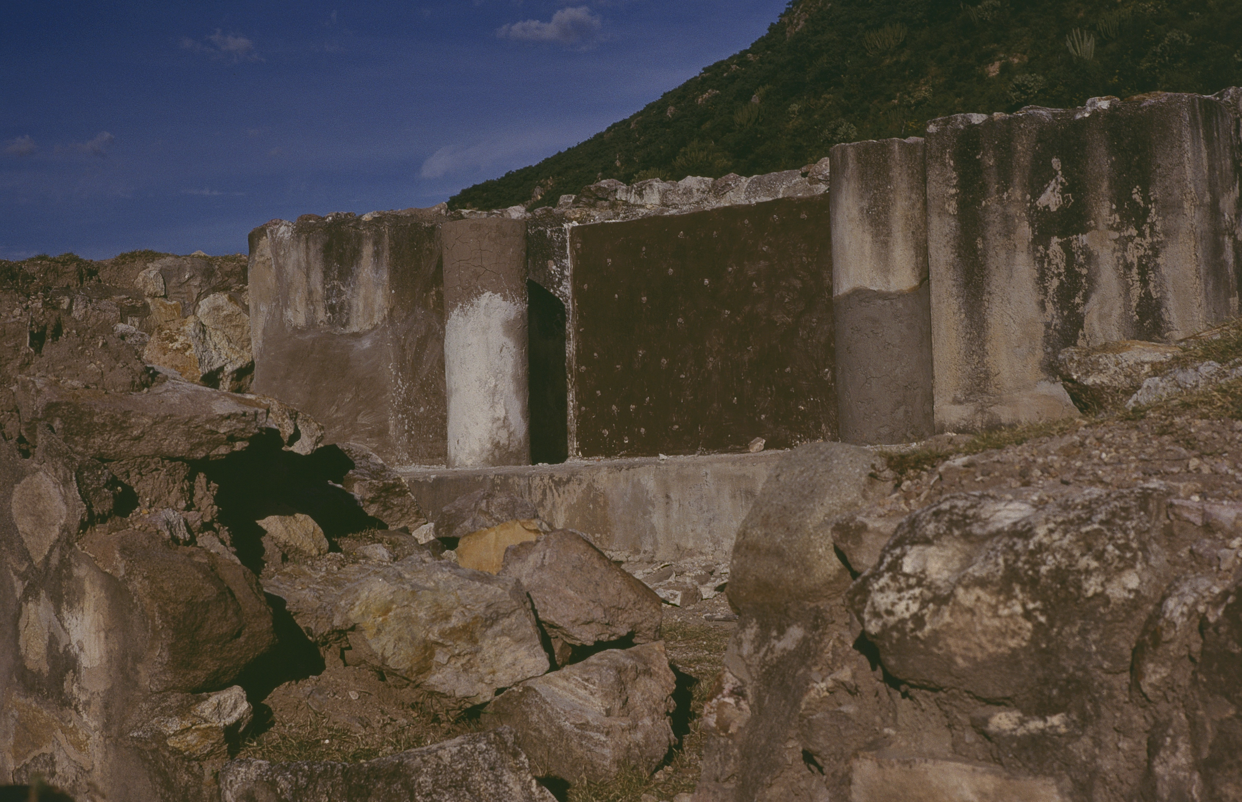 Yellow Temple